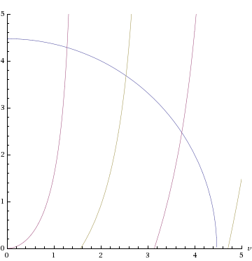 This shows the graphical solution to the equation givingthe energy levels of a finite square well